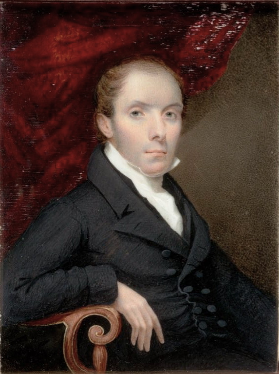 Self-portrait. By Thomas Edwards, American, 1795–1869. 10.16 x 7.62 cm (4 x 3 in.). Watercolor on rectangular ivory. Museum of Fine Arts, Boston